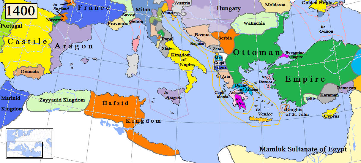 Map of the Mediterranean region in AD 1400. (Partially based on Euratlas map of Europe, 1400.) (NOTE: THIS MAP IS RATHER PROVISORY AND INACCURATE!!! THE AUTHOR SHOULD MAKE IT BETTER! HE COULD USE FOR INSTANCE THE FOLLOWING MAP ON THE WIKIMEDIA COMMONS: (MADE BY GUSTAV DROYSEN IN 1886, VERY MUCH ACCURATE) OR OTHER SUCH OR SIMILAR MAPS.